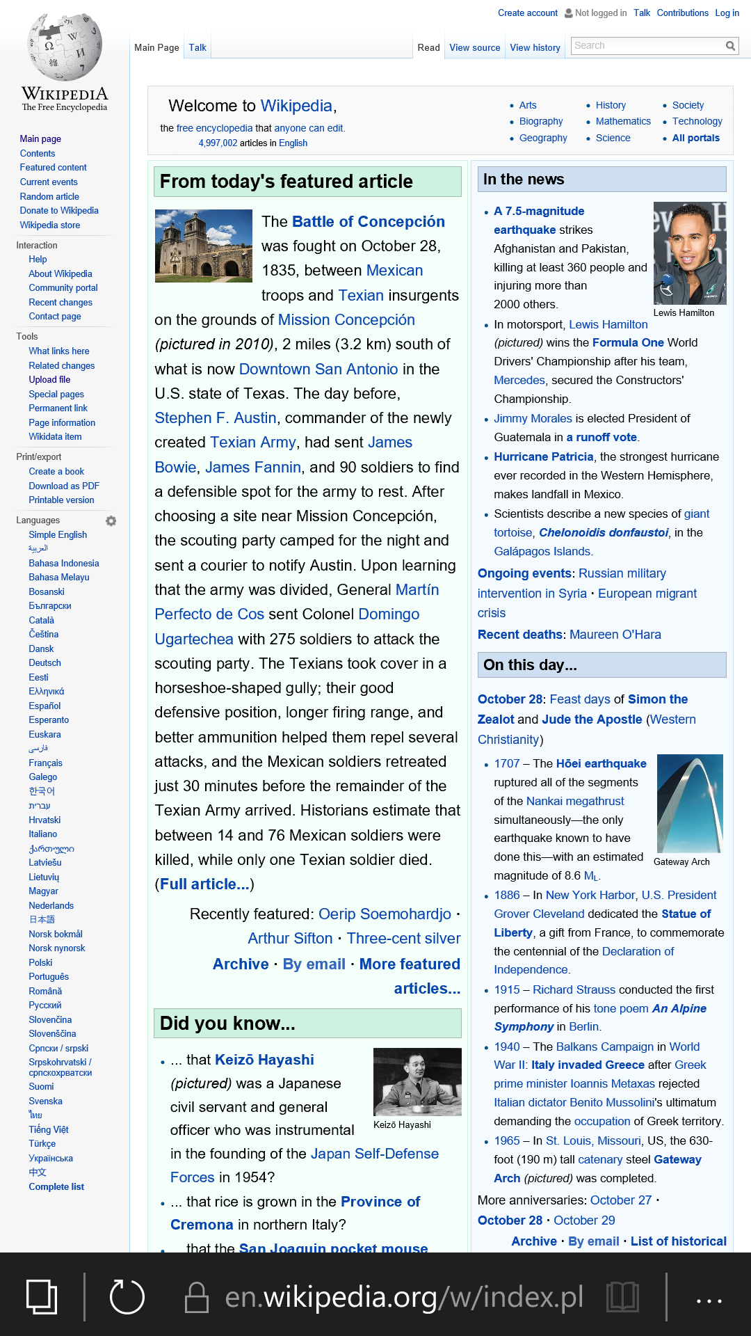 This image depicts the English Wikipedia as displayed using Microsoft Mobile's Edge browser.